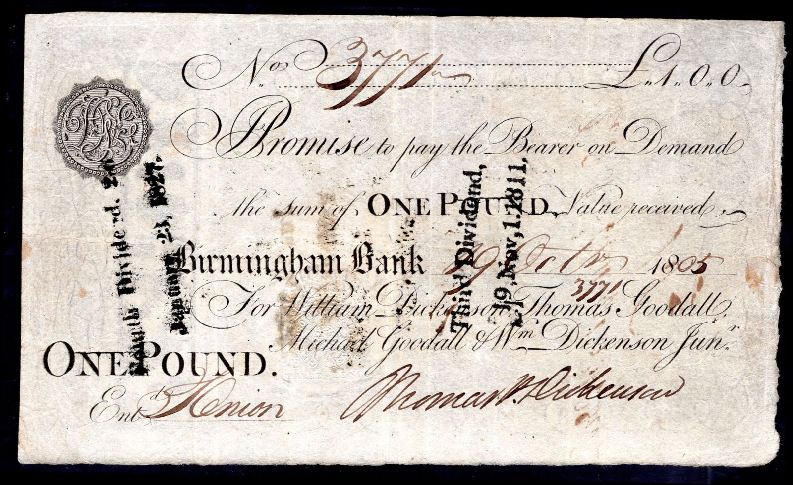 Birmingham Bank cheque, dated 19 October 1805